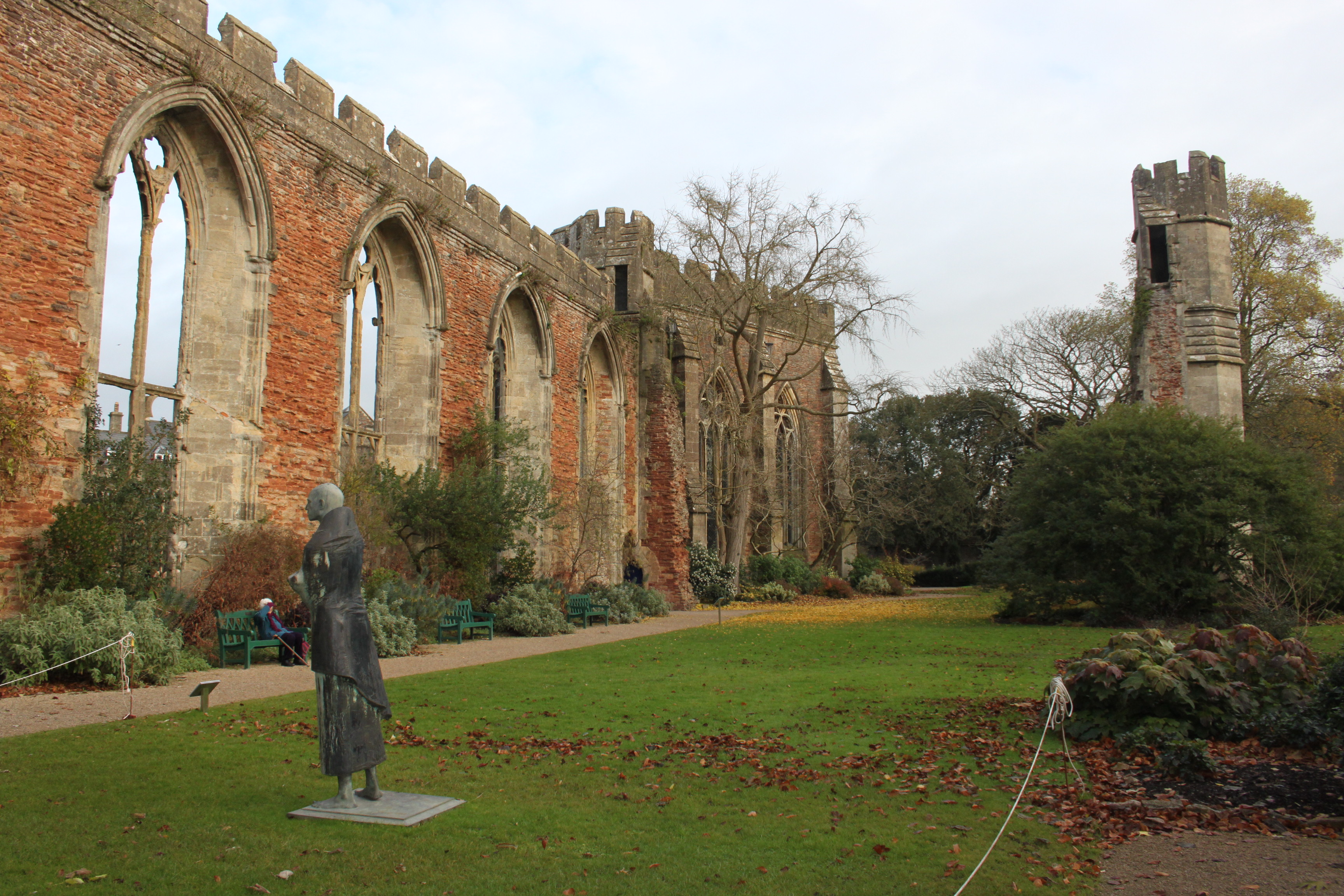 Bishop's Palace, Wells. Ruin of great hall